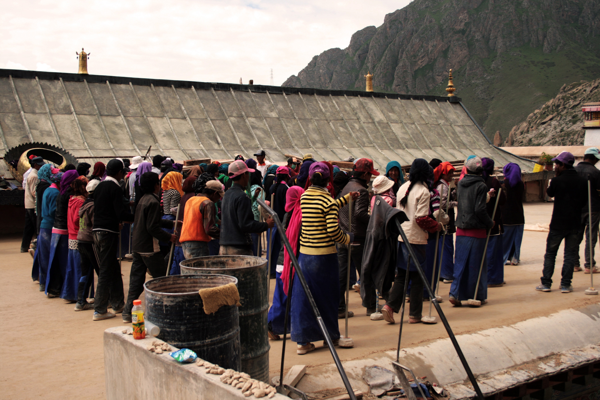 Construction with A-Ga clay in Drepung Monastery （Chinese: 哲蚌寺; Tibetan:འབྲས་སྤུངས)